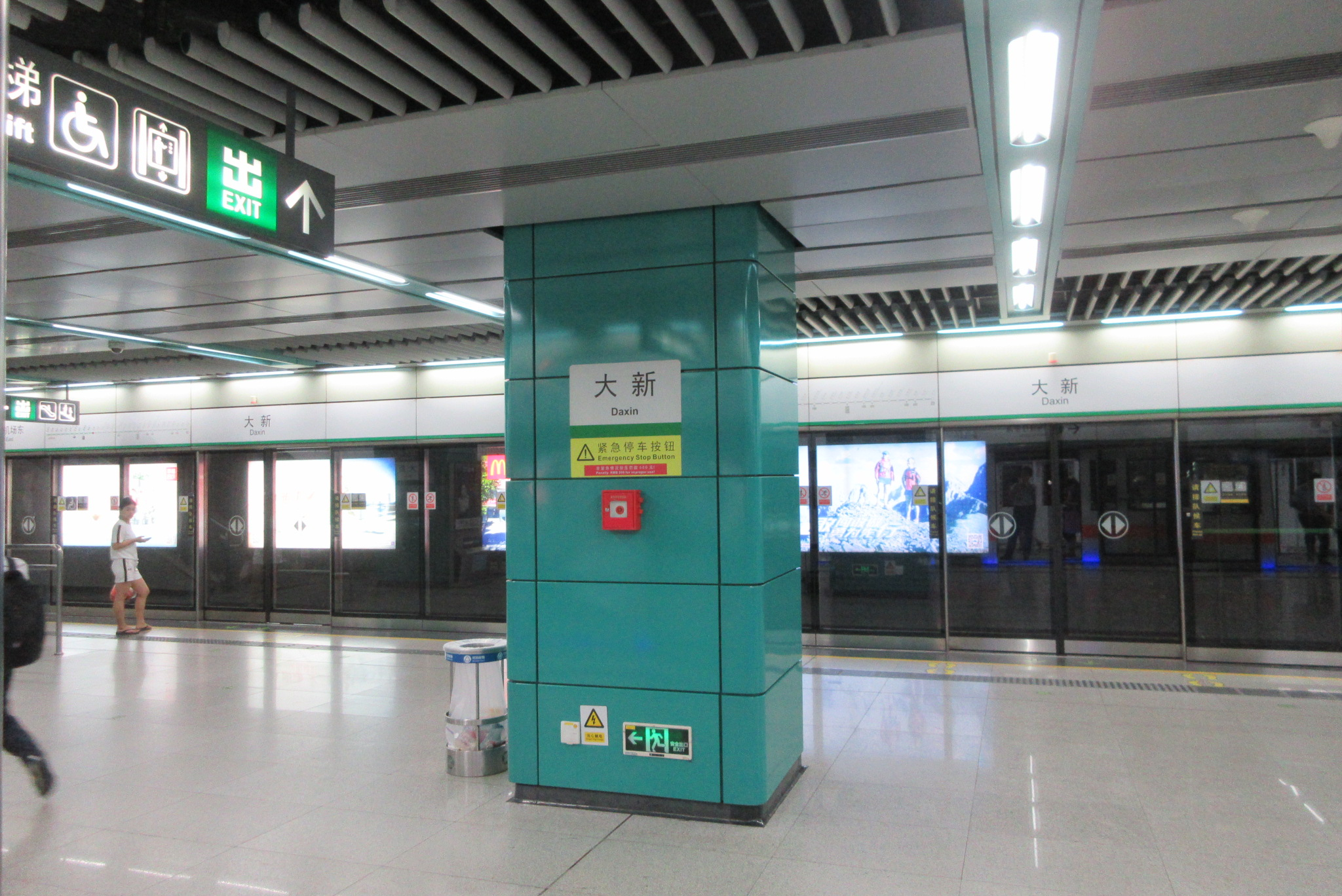 SZ 深圳 Shenzhen 大新站 Metro Daxin Station platform June 2017